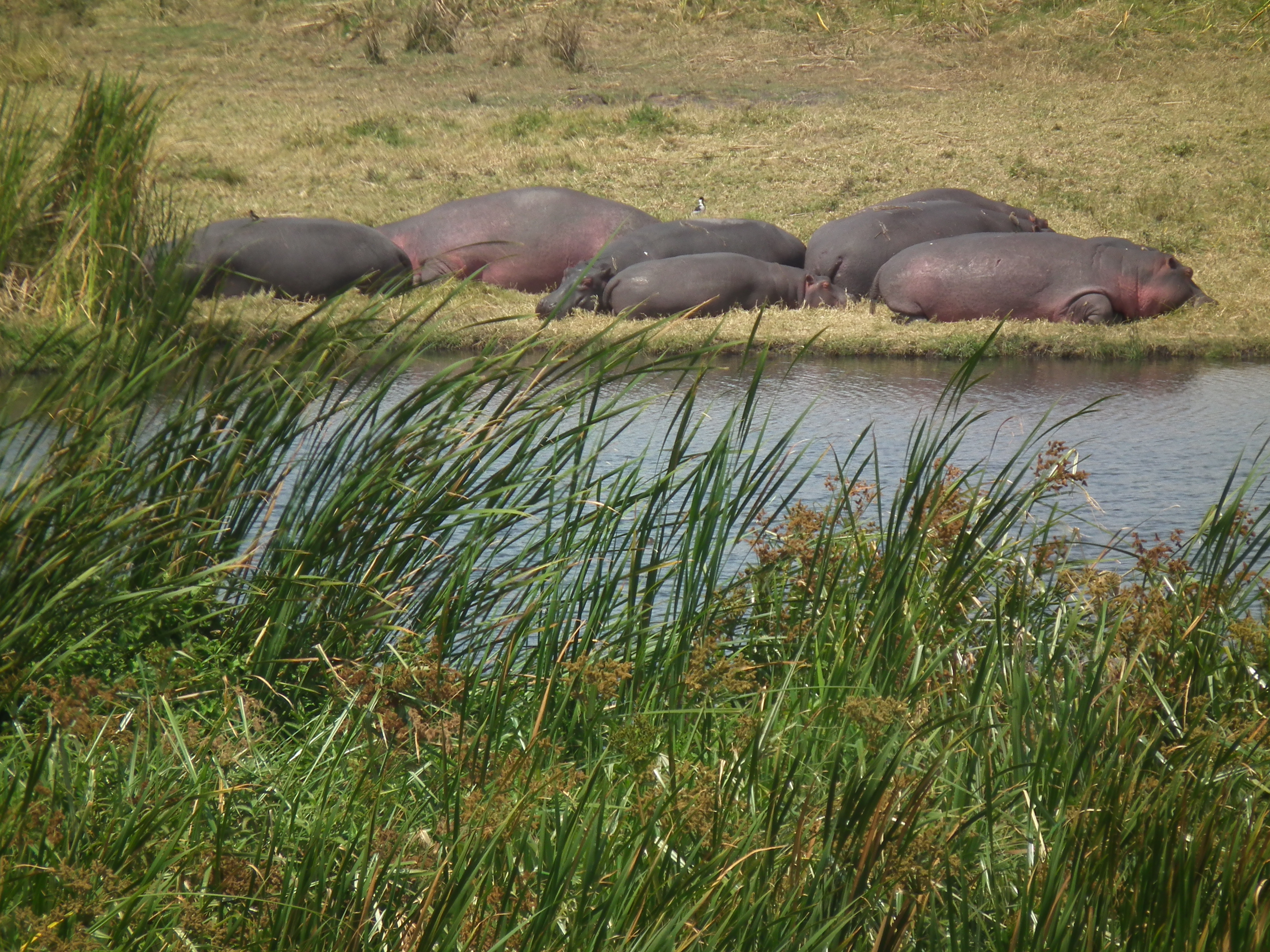 Hippopotamus amphibius from Tanzania